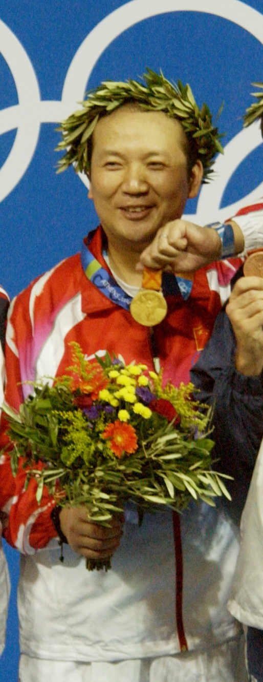 Jia Zhanbo at the 2004 Athens Olympics medal ceremony for the Men's 50m Three-Position Rifle Competition. Markopoulo Shooting Center in Athens, Greece, on Aug. 22, 2004.